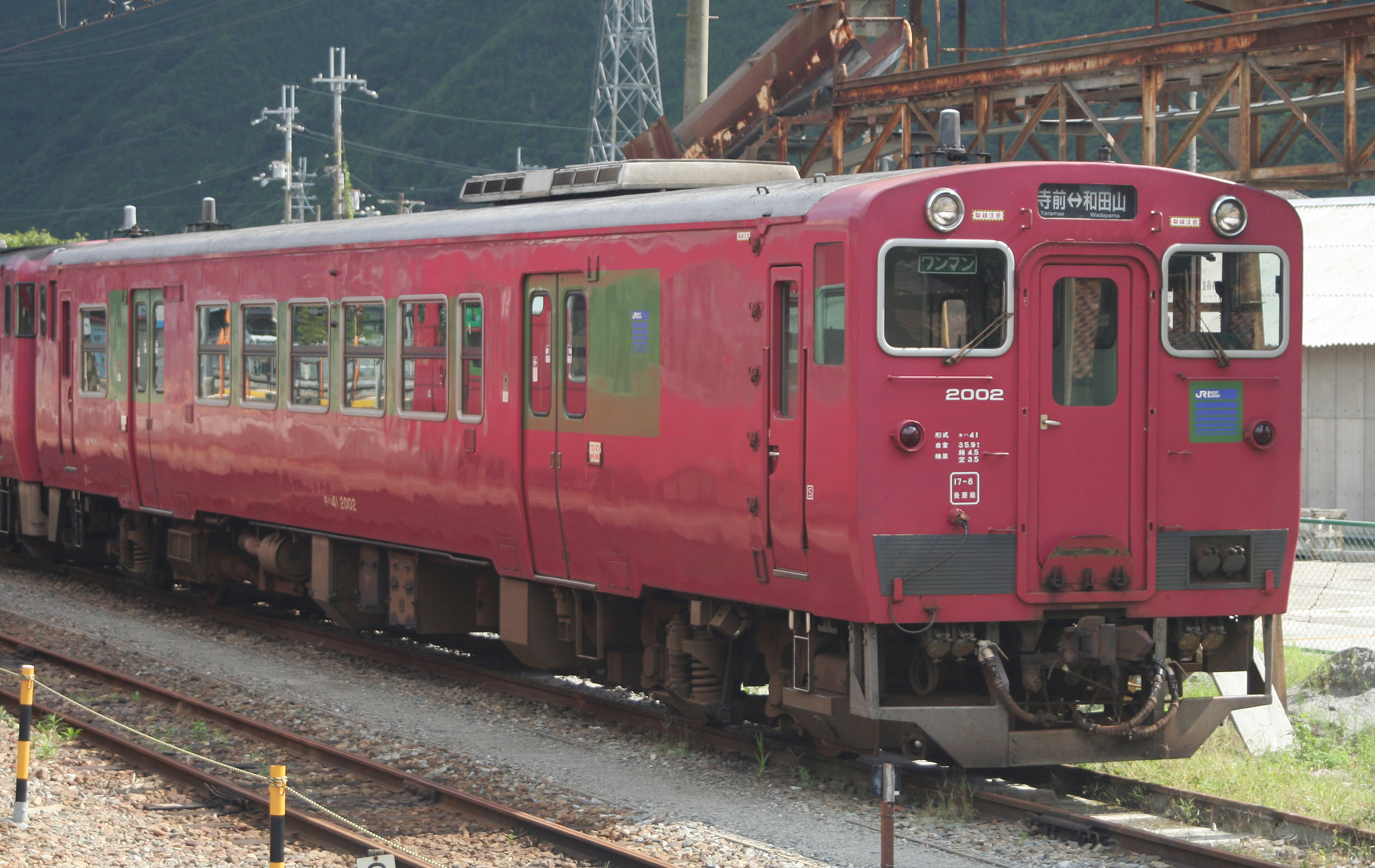 West Japan Railway Company kiha41-2002 Teramae station